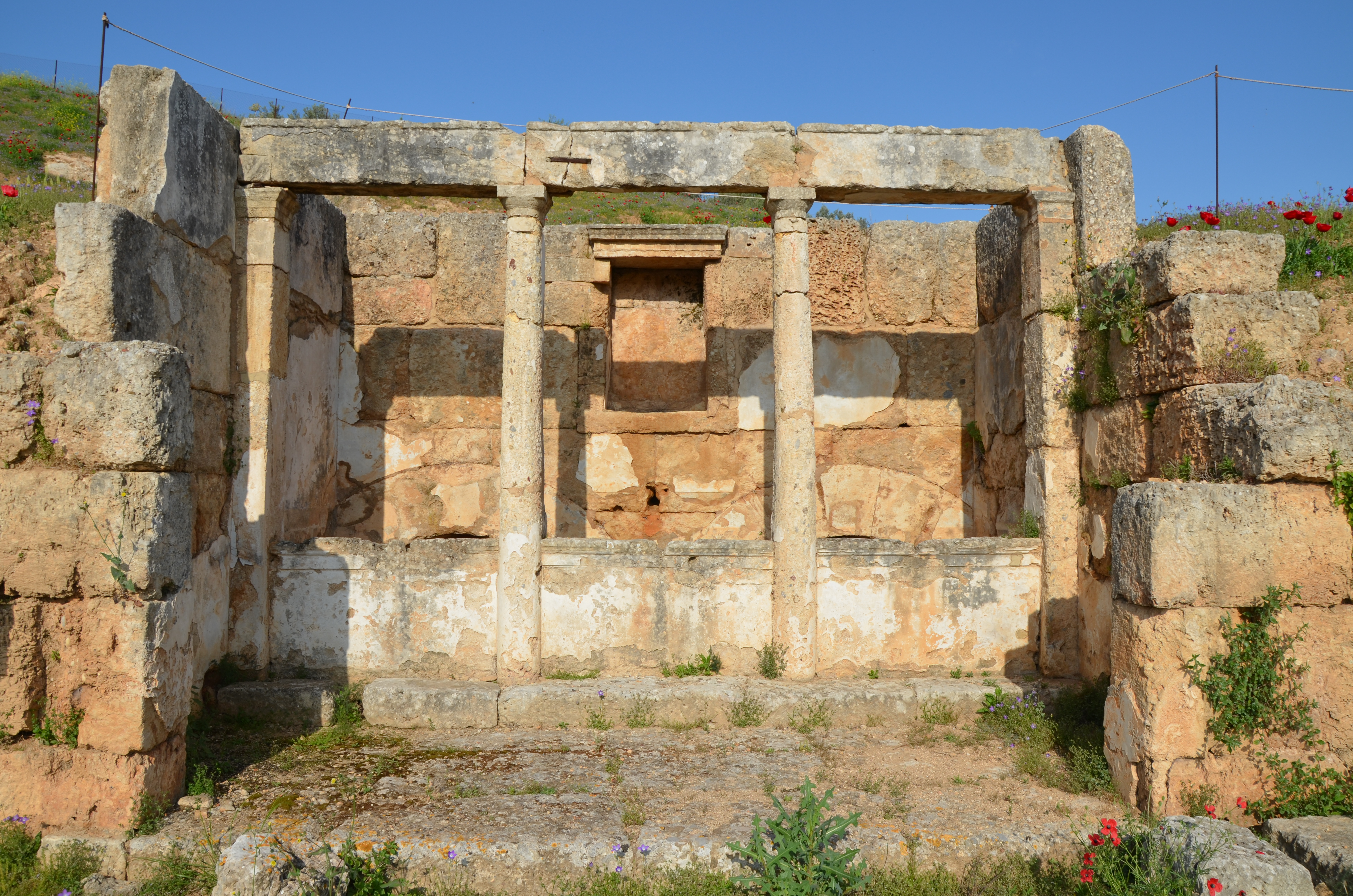 Sikyon, Greece